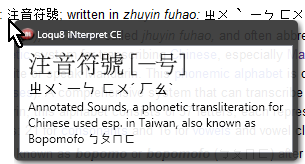 Instant Chinese to Bopomofo and English translation